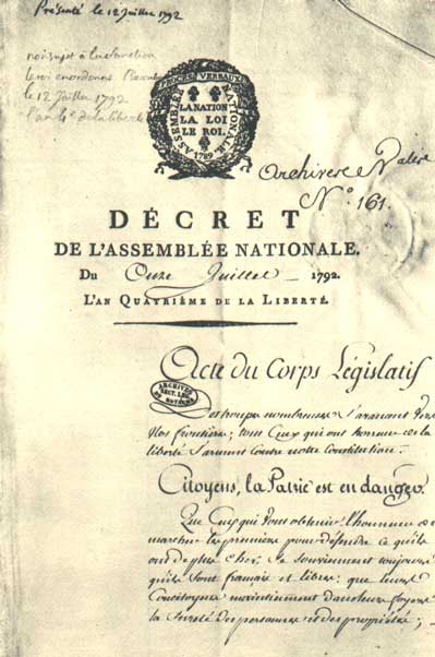 Declaration by the French National Assembly on 11 July 1792 in response to Prussia joining Habsburg Monarchy against France.